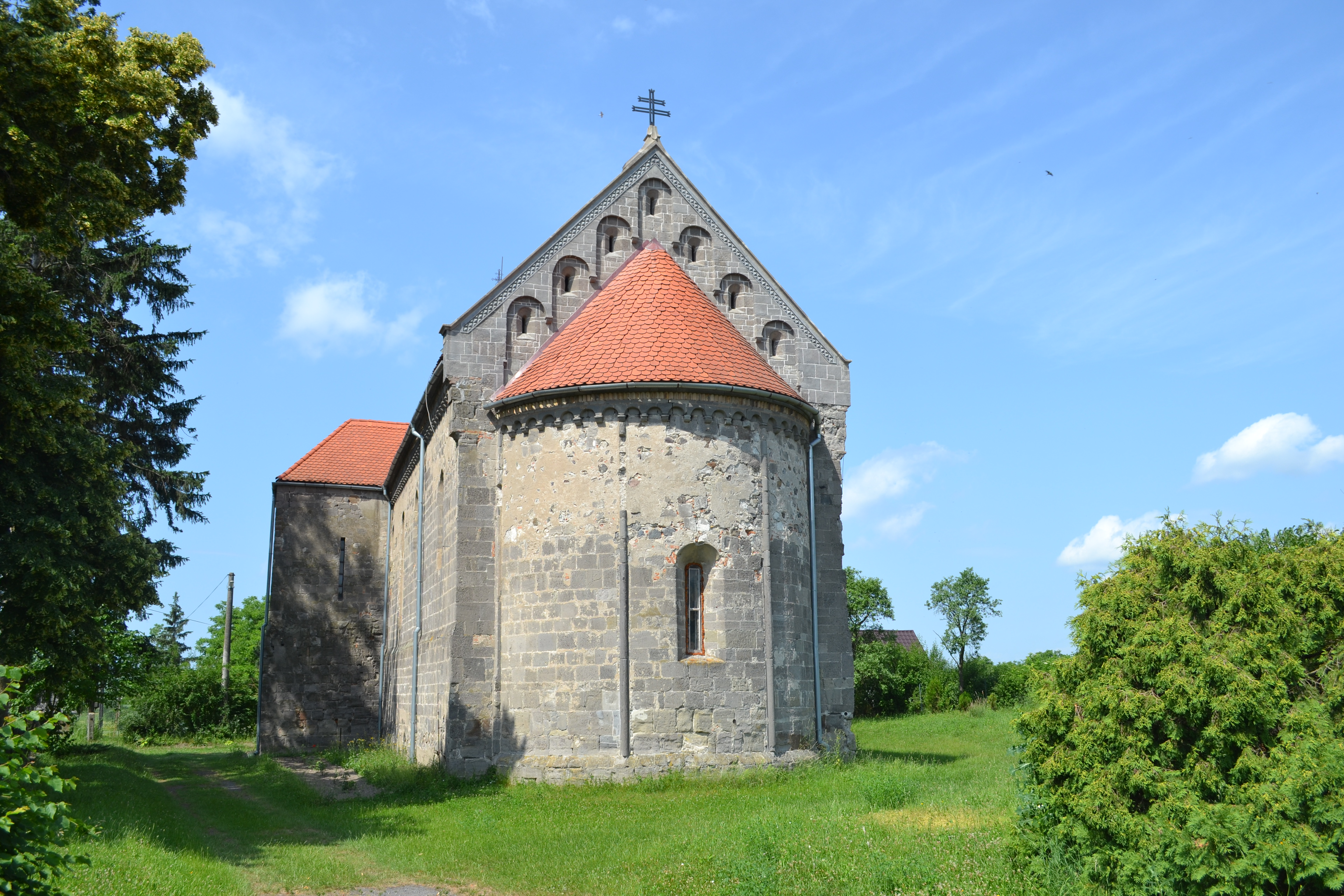 Church of Saint John the Baptist in Rimavské Janovce